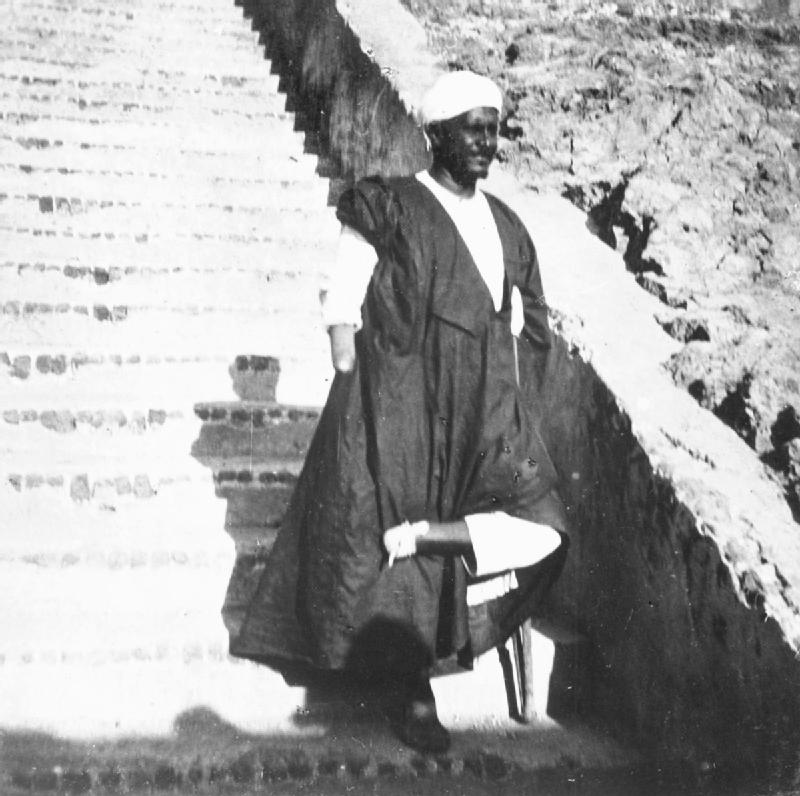 General Kitchener and the Anglo-egyptian Nile Campaign, 1898 Mohammed Fadl, a Sudanese spy from Dafur who was imprisoned and mutilated by the Khalifa, possibly at Aswan, Egypt. His right hand and left foot have been amputated as punishment.